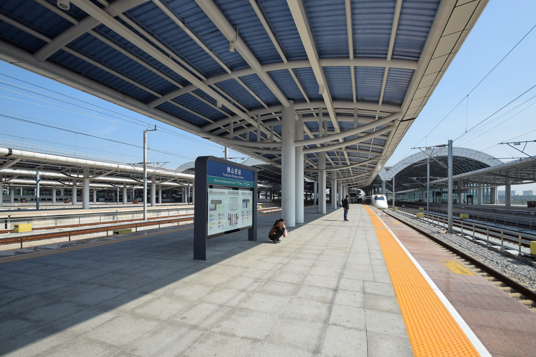 High-Speed Railway Platforms of Foshan Xi (West) Railway Station, view towards Guangzhou Nan (South) Railway Station.